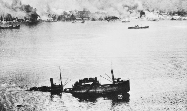 A Japanese transport ship sinks in Simpson Harbor at Rabaul due to Allied air attacks on November 2, 1943.